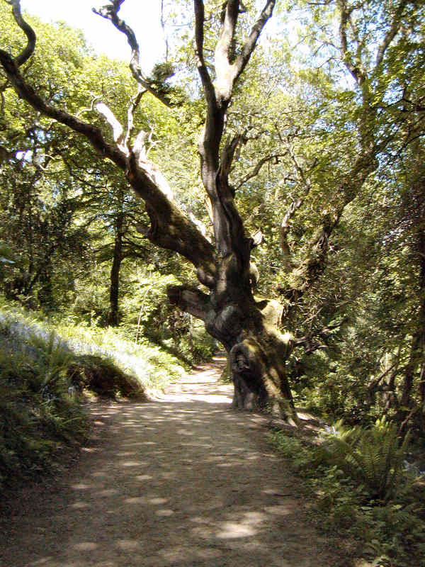 Heligan: Oak "Georgian Ride" in the Lost Valley. For more information see the Wikipedia article Lost Gardens of Heligan.